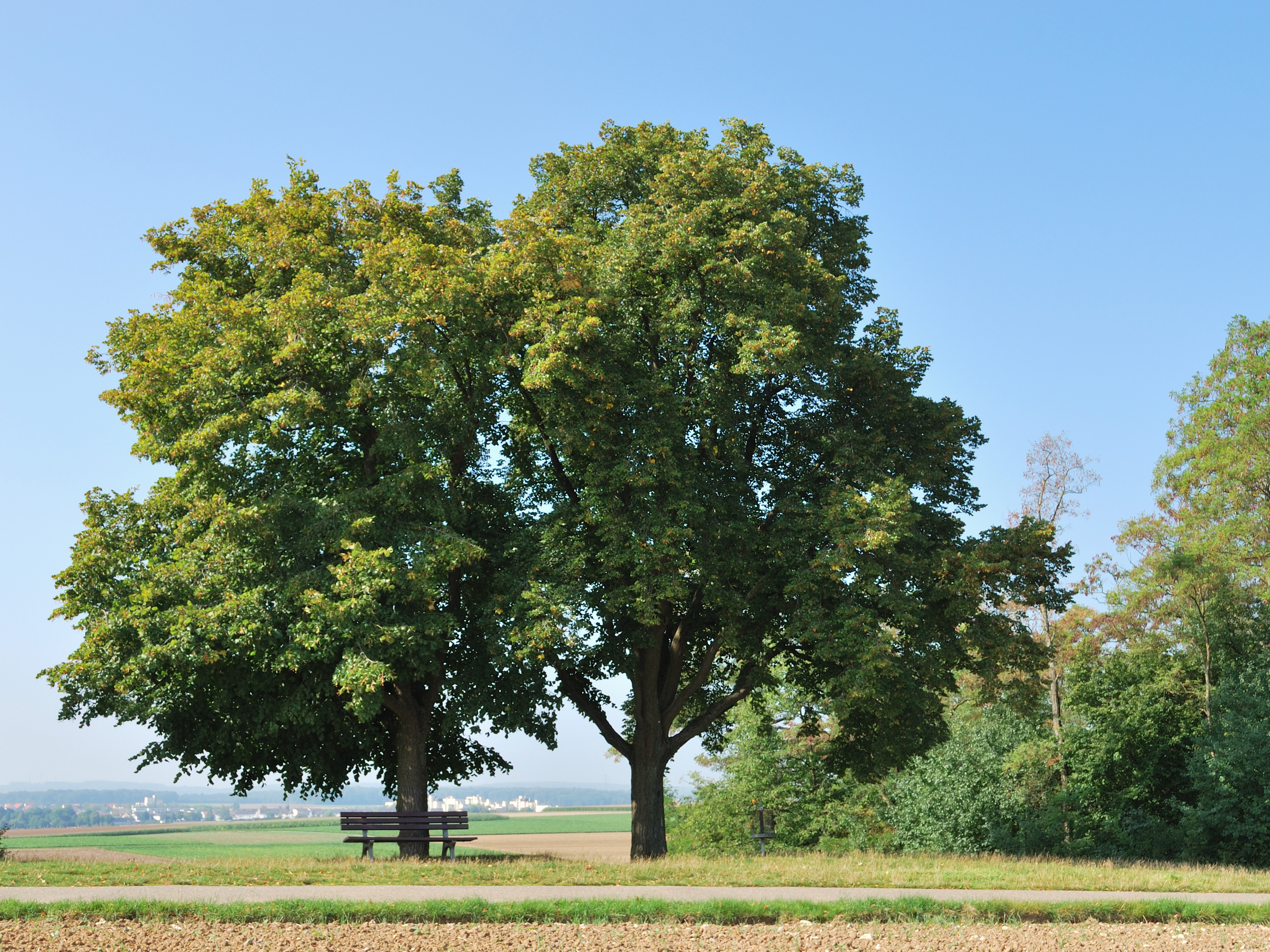 The Katharinenline (Catherine lime tree) in Schwieberdingen (Baden-Württemberg, Germany) was planted 1820 in commemoration of the Queen Catherine of Württemberg.